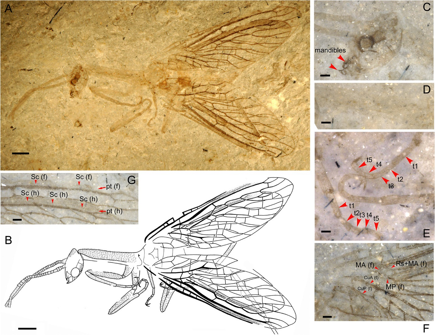 Juroraphidia longicollum gen. et sp. nov., holotype BMNHC-PI004804-a/b. A, Habitus photograph; B. Habitus drawing; C, Detail of head; D, Detail of prothorax; E, Detail of tarsi; F, Proximal half of wings; G, Pterostigmatic areas of wings. t1-5, 1st-5th tarsomere; Sc (f) and Sc (h), forewing and hindwing subcosta; pt (f) and pt (h), forewing and hindwing pterostigma; Rs +MA (f), forewing Rs + MA; MA (f), forewing media anterior; MP (f), forewing media posterior; CuA (f), forewing cubital anterior; CuP (f), forewing cubital posterior. Scale bars represent 1.0 mm in A and B; 0.2mmin all other panels.